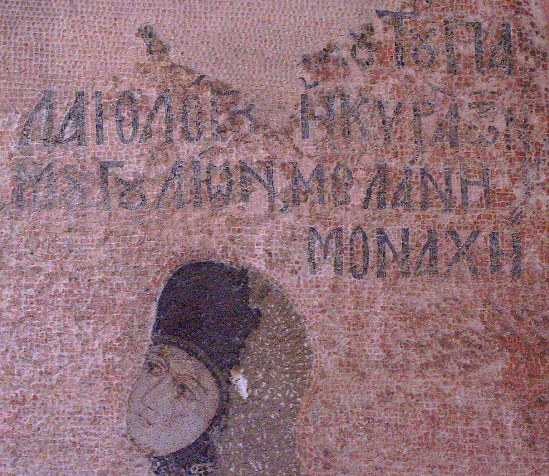 Chora Church, Maria Palaiologina, "Mary of the Mongols" from the lower right of the Deesis scene mosaic Mosaic text says: "ουΤου ΠΑ / ΛΑΙΟΛΟΓου...Η ΚΥΡΑ των / ΜουΓουΛΙΩΝ, ΜΕΛΑΝΗ / ΜΟΝΑΧΗ - " (translation: ... of Palaeologus ... the Lady of the Mongols, Melanē nun). Translation provided by User:Aramgar.[1]